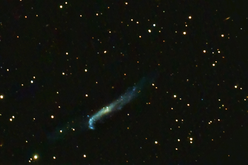 I took with photo with my backyard telescope in April 2007